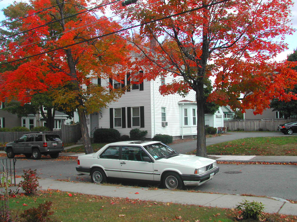 Volvo 780 Bertone